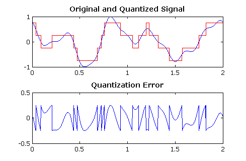 Plot of a quantized signal and its error